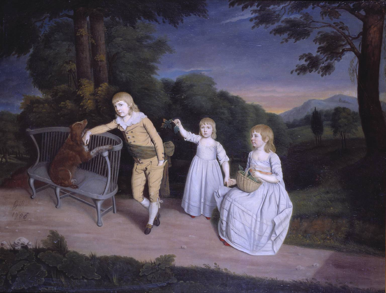 The children of Sir John Lethbridge, 1st Baronet (1746–1815) The children are (l-r) Sir Thomas Lethbridge, 2nd Baronet (b.1778), Dorothea and Frances Maria.